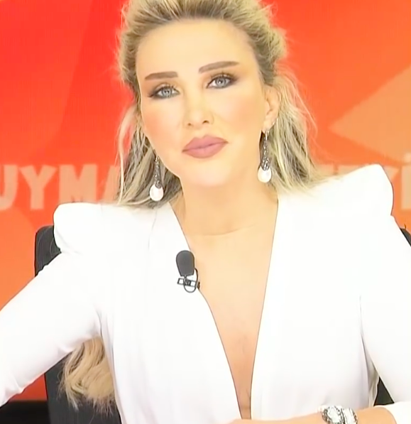 Turkish television presenters Cengiz Semercioğlu and Seren Serengil during their magazine show called Duymadık Demedik.